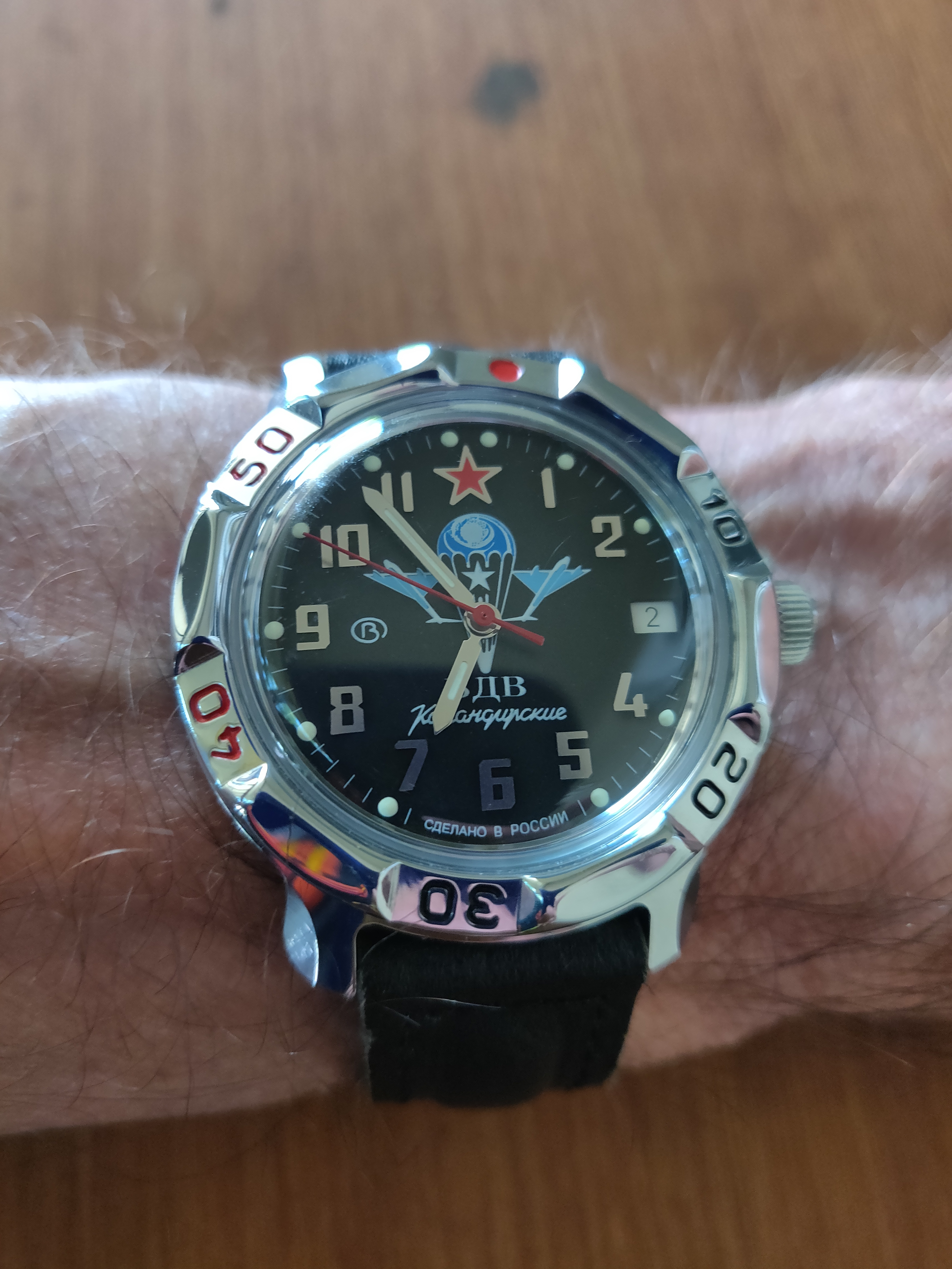 A mechanical Vostock watch featuring the emblem of the Russian Airborne Troops, or VDV.